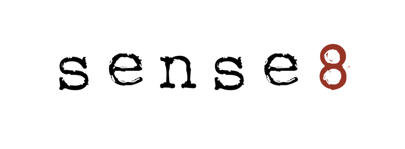 Part of the logo for the american television series "Sense8".